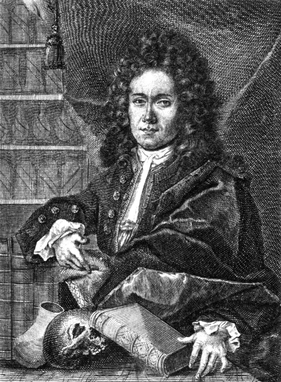 Johann Friedrich Faselius (1721-1767) german Physician